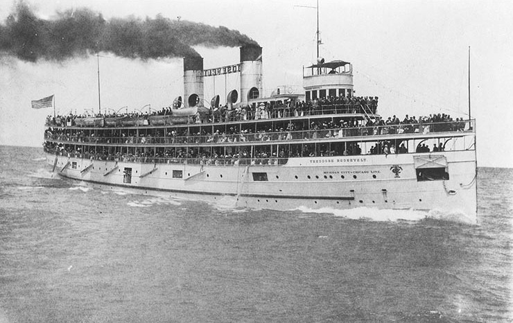 Commercial passenger ship SS Theodore Roosevelt on the Great Lakes prior to her United States Navy service as troop transport